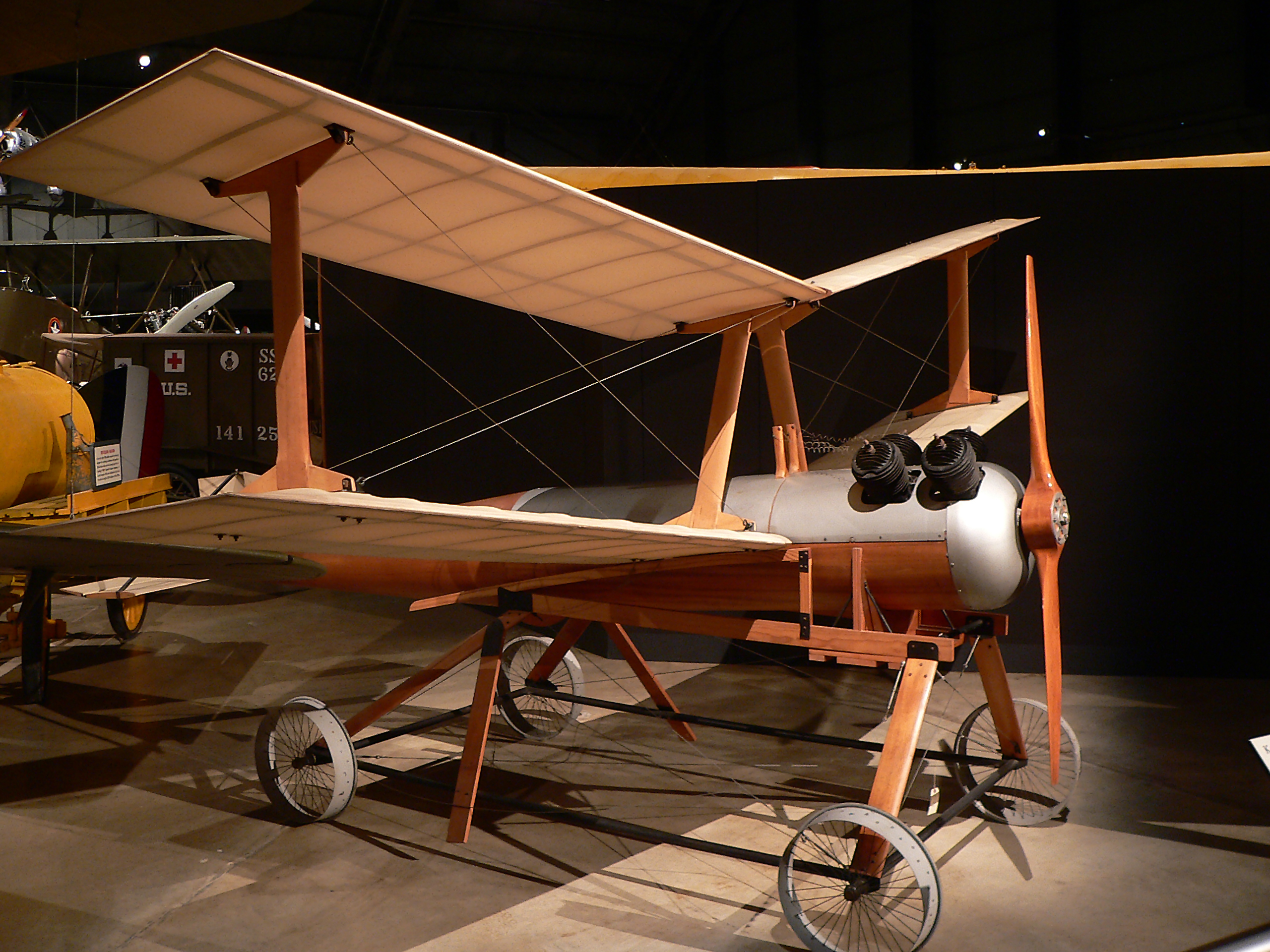 Kettering Aerial Torpedo - taken at the National Museum of the USAF.